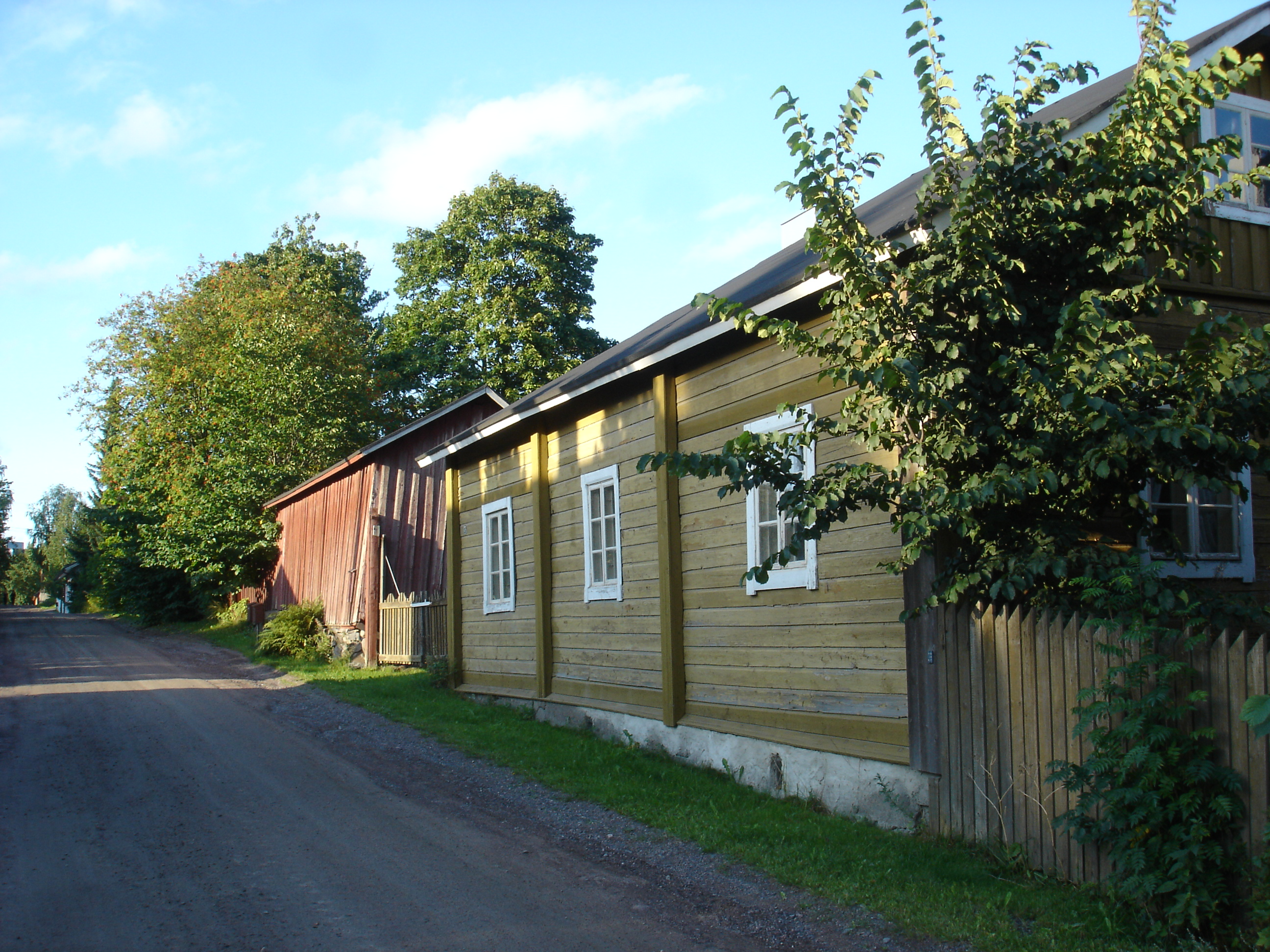 The Kalliomäki wooden house quarter in Forssa